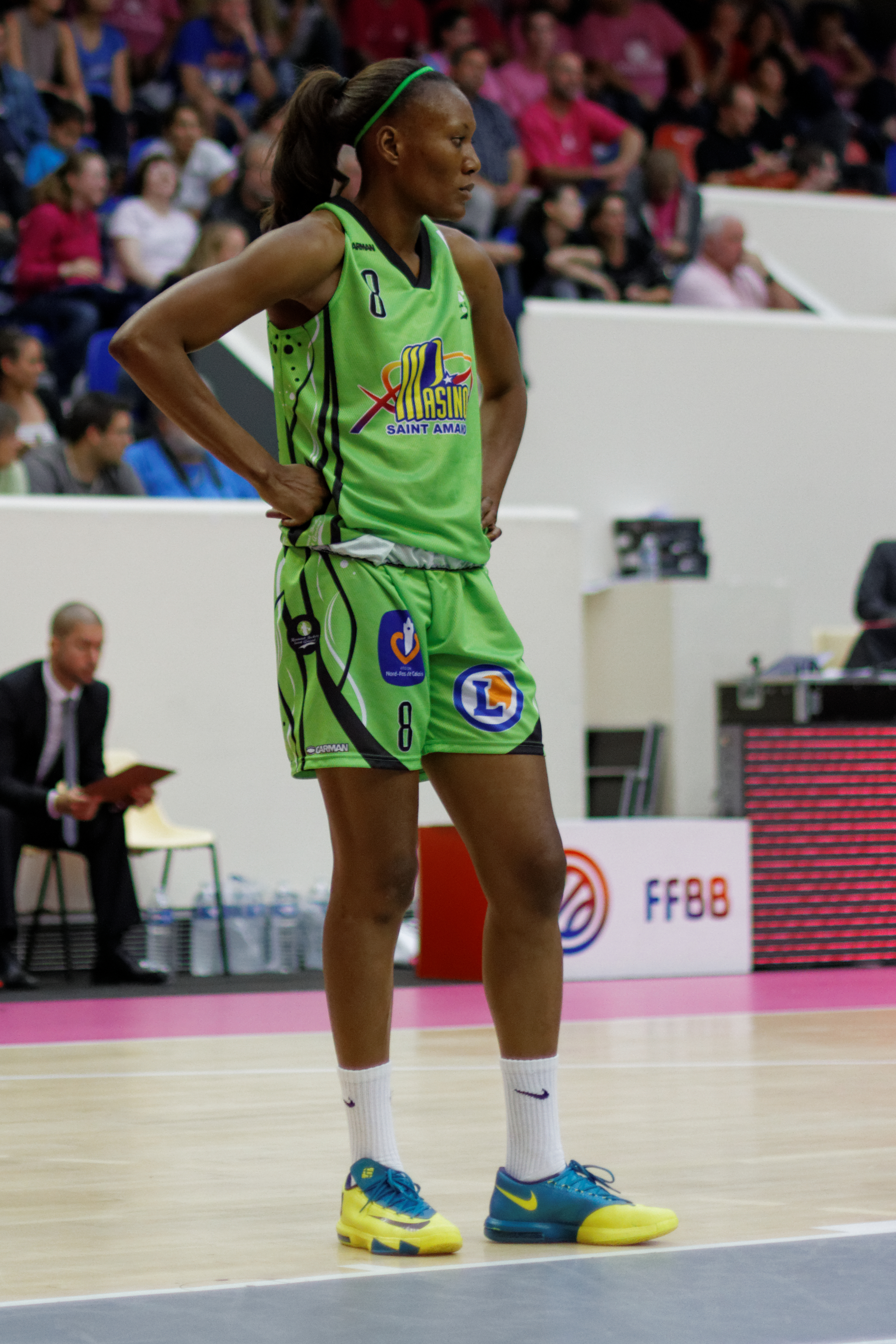 Open LFB, Hainaut Basket-Nantes Rezé, October 6th, 2013.